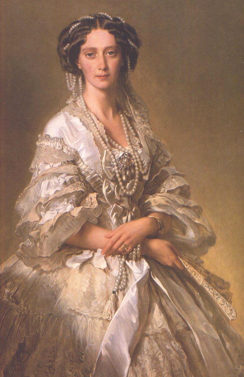 Tsarina Maria Alexandrovna, painted by Franz Xaver Winterhalter, 1857